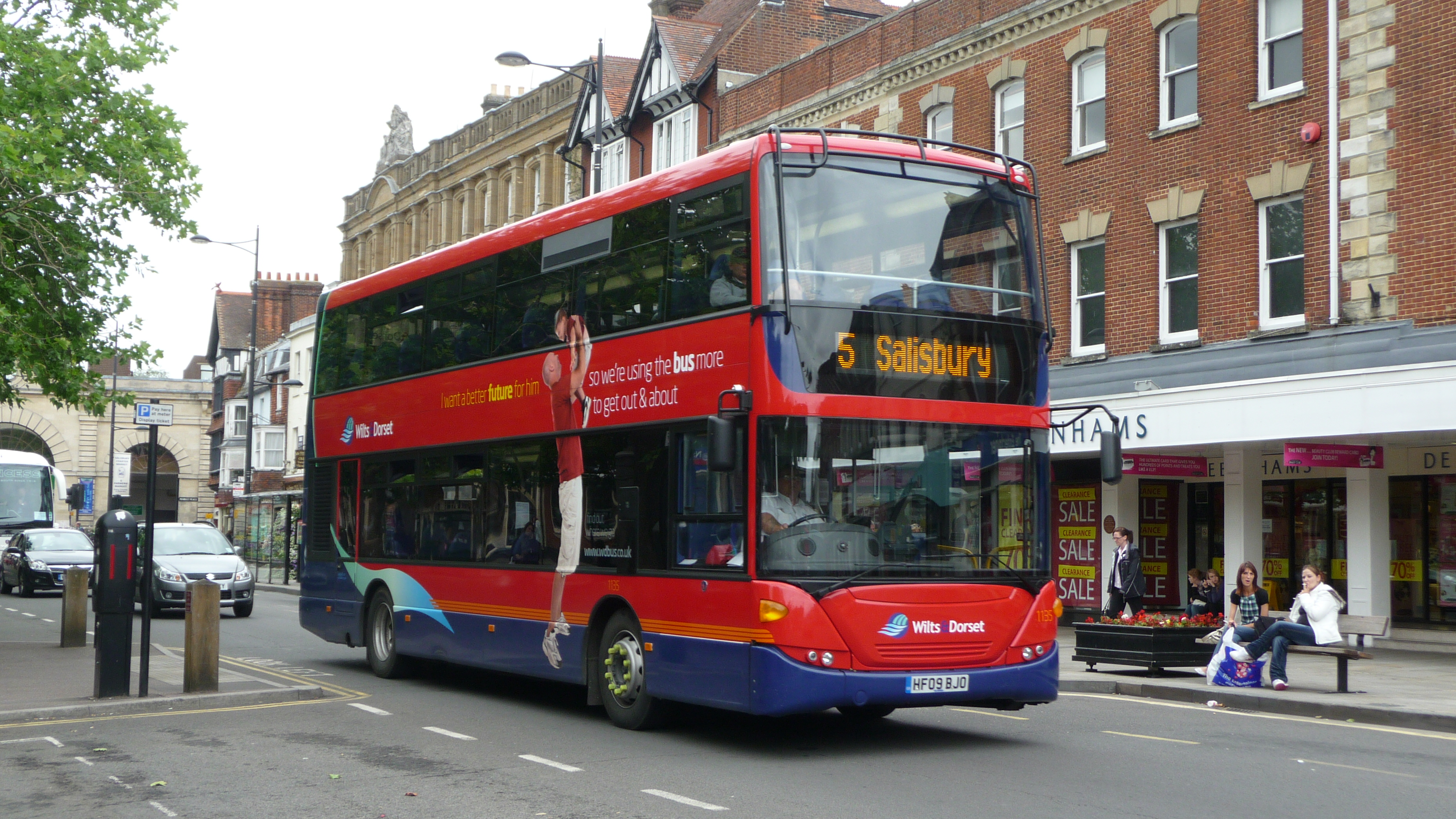 Wilts & Dorset 1135 (HF09 BJO), a Scania OmniCity, in Blue Boar Row, Salisbury, Wiltshire, on route 5.